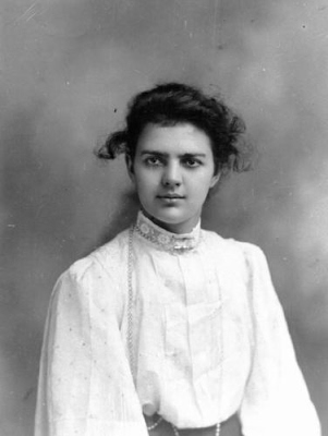 Dr Mary Clementina De Garis - Chief Medical Officer America Unit 27-Feb-17 30-Sep-18